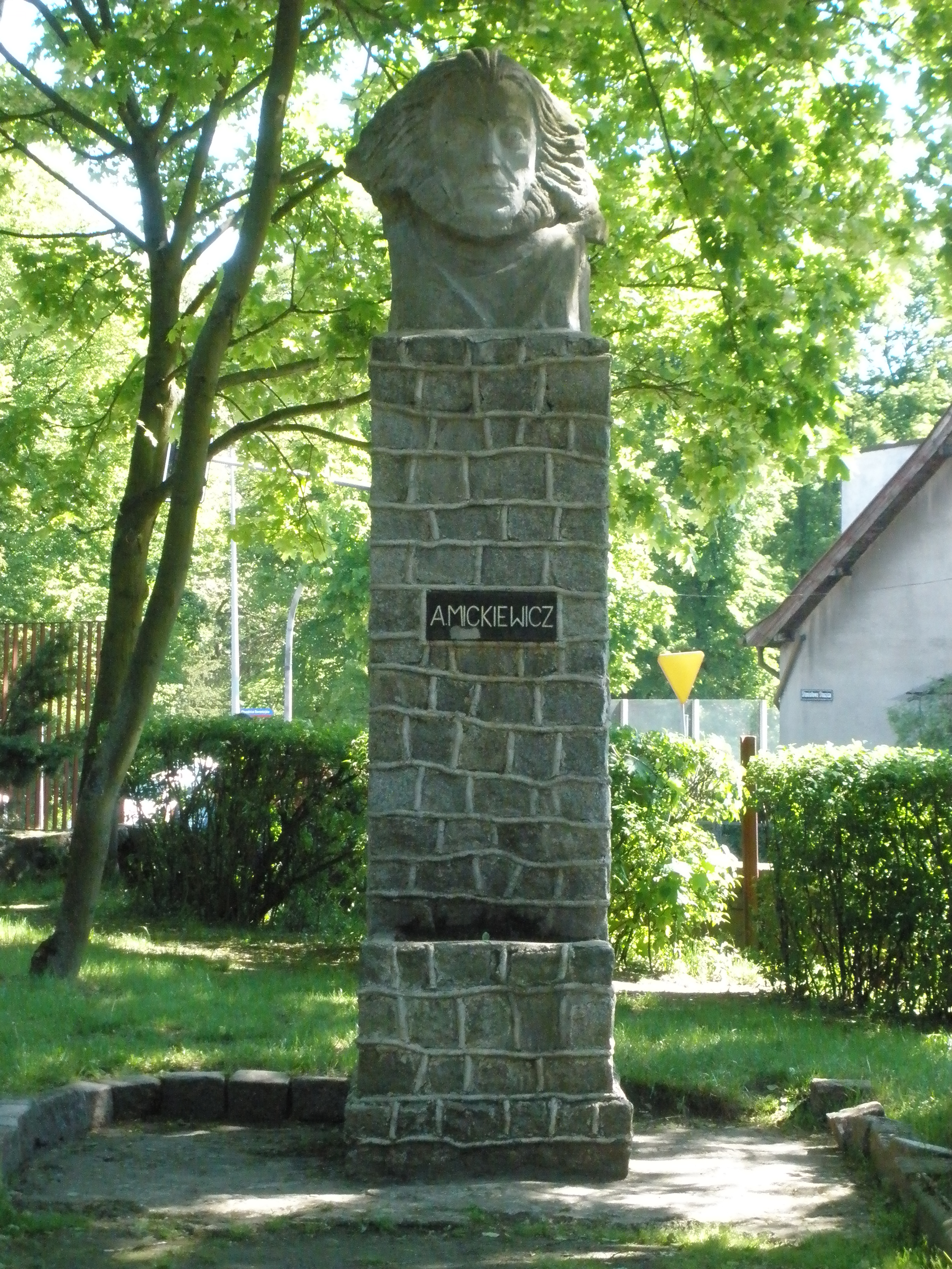 Monument of Adam Mickiewicz on the campus of ILO in Stargard Szczeciński.